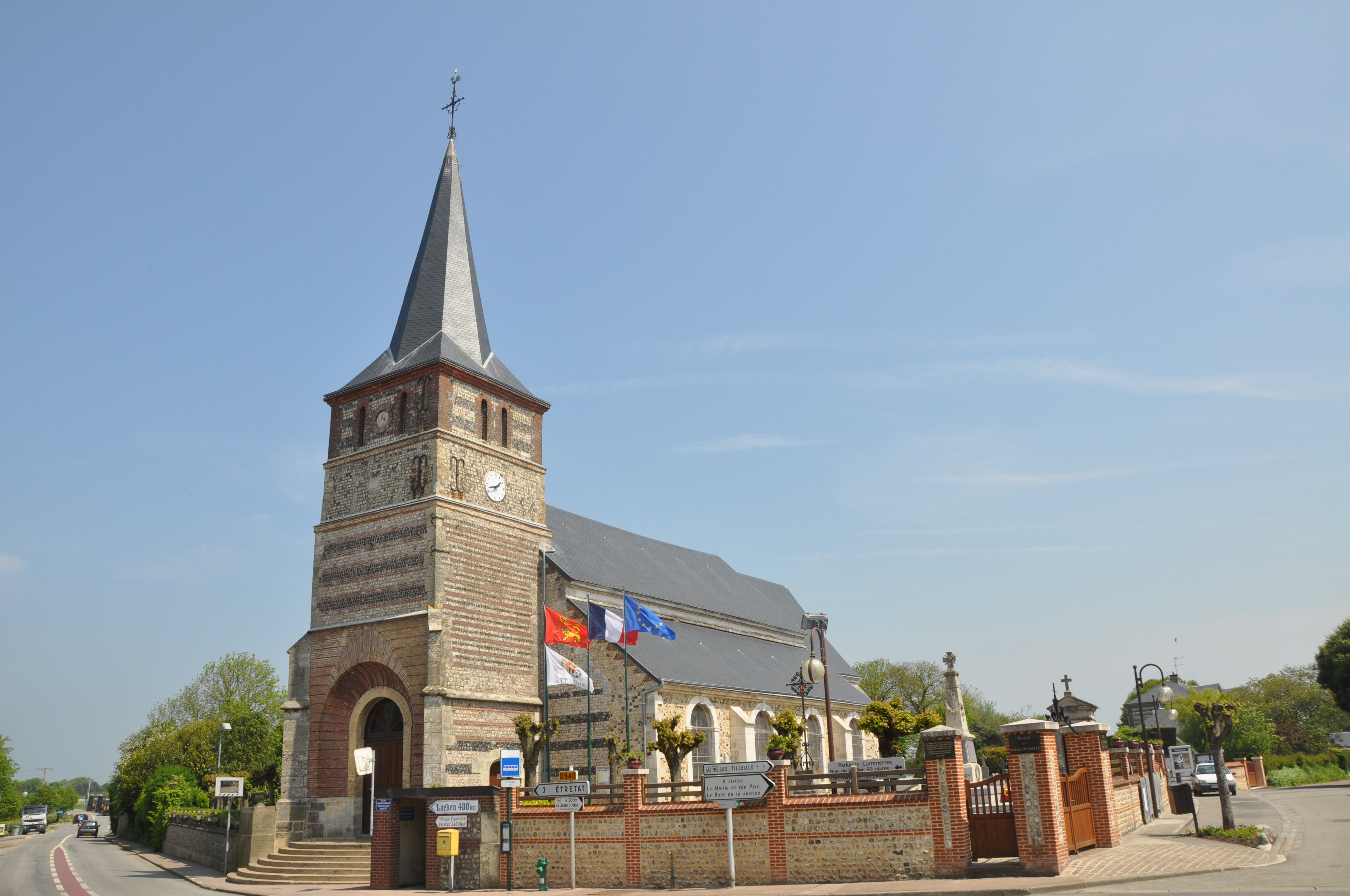 Church of Le Tilleul (France, Normandy). Road for Etretat leftside.